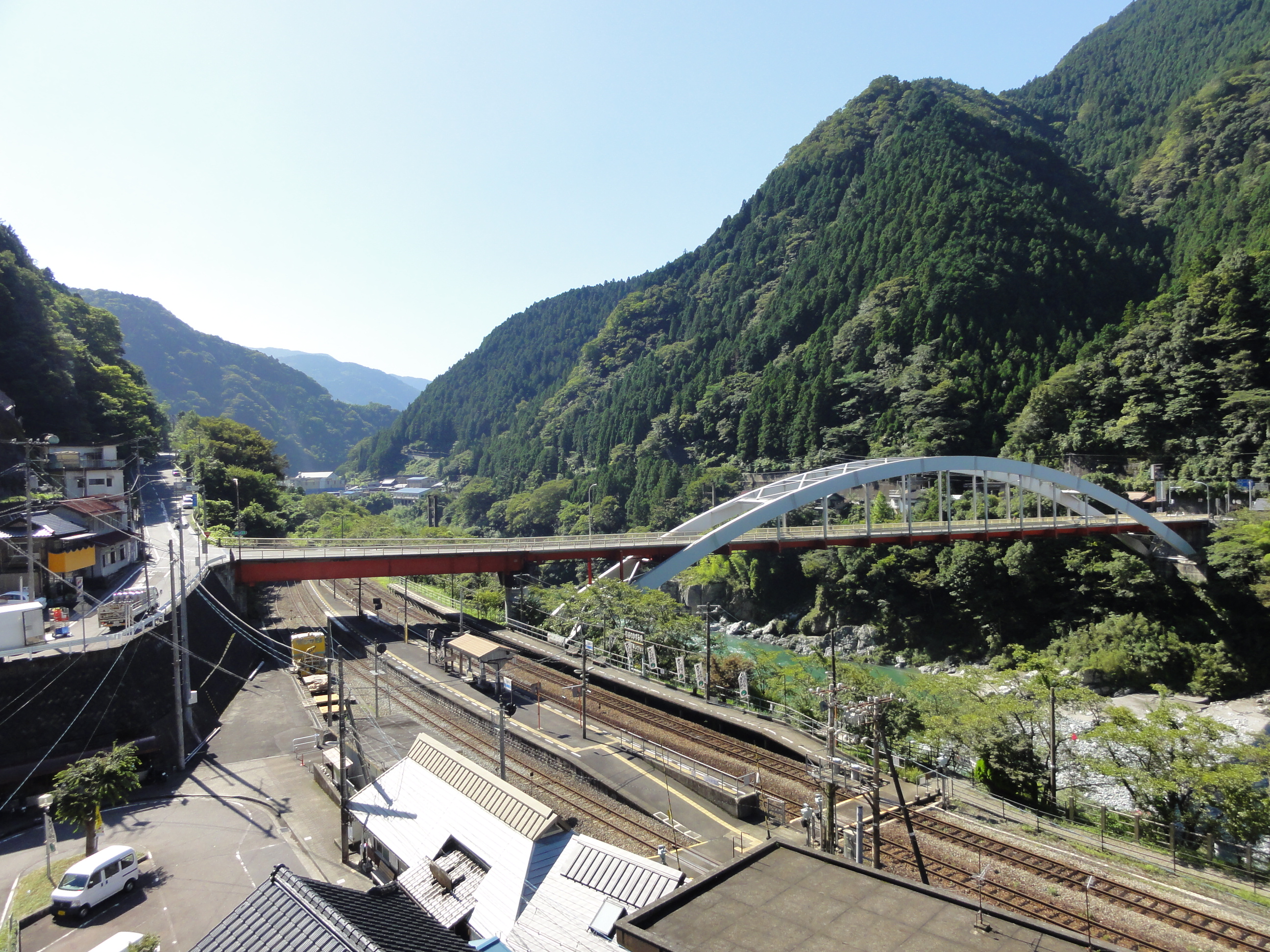 Oboke Station